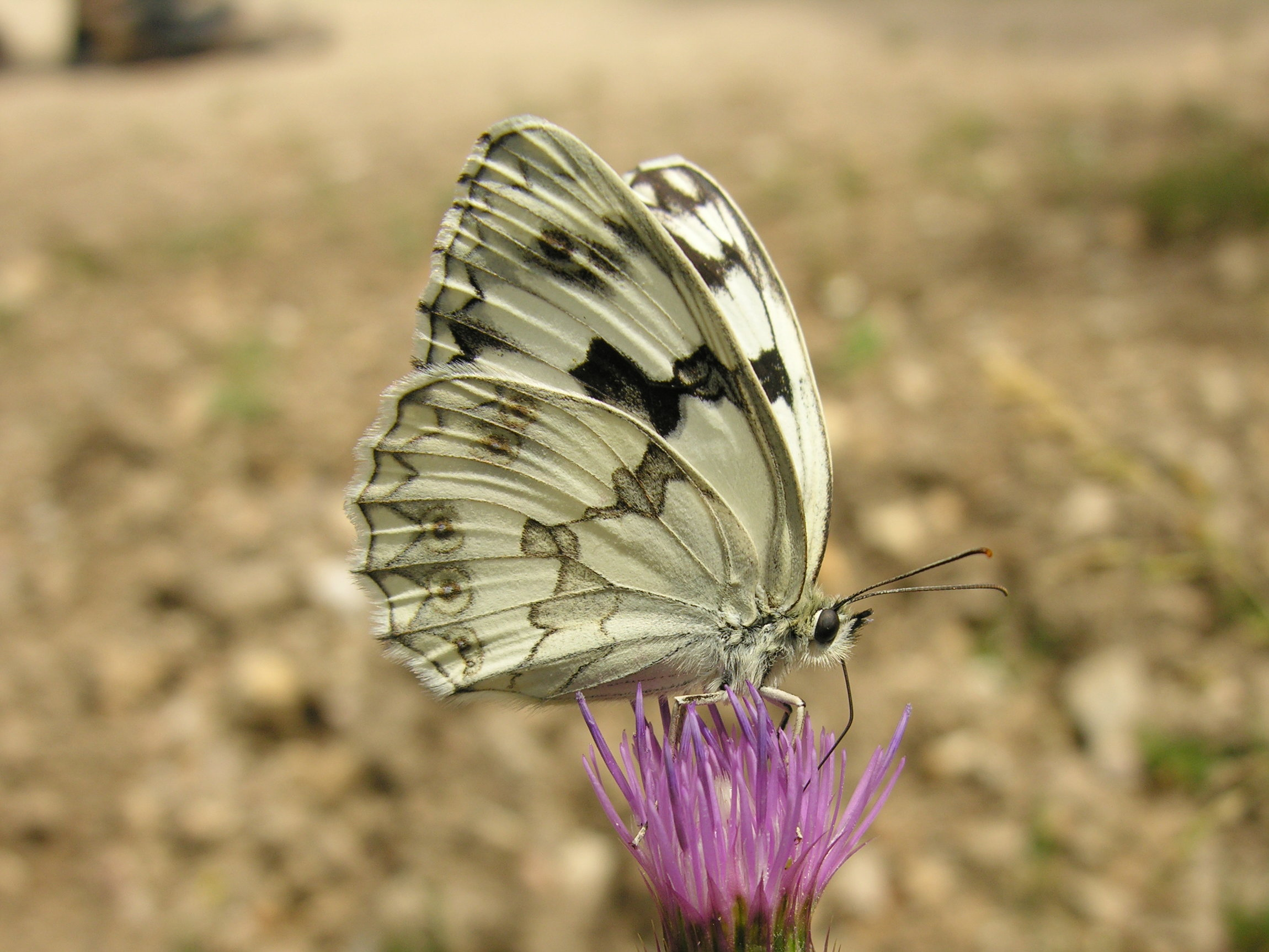 Melanargia lachesis (Nymphalidae, Satyrinae). Valle del Lozoya, Madrid, Madrid.